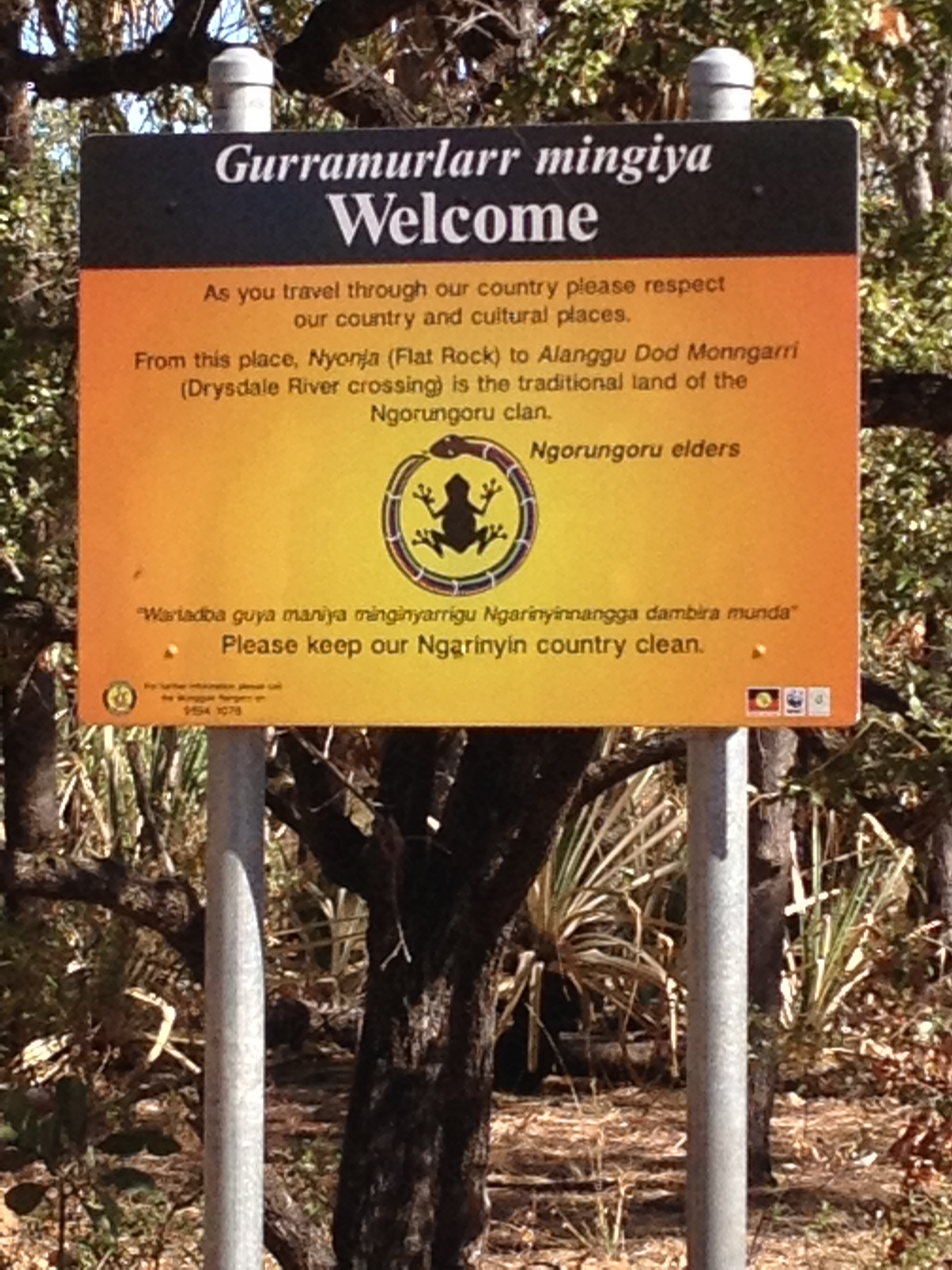 Welcome sign in Ngarinyin